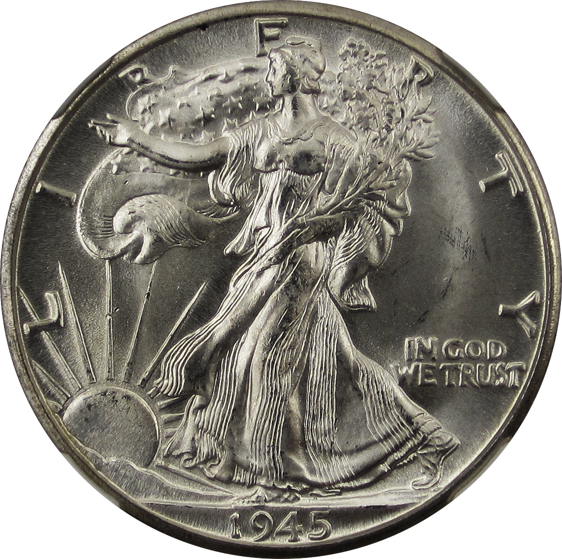 The obverse of the Walking Liberty half dollar. This particular coin is graded MS66+ by the Numismatic Guaranty Corporation (NGC) and is housed in an EdgeView holder (one can see the minimally viewable white prongs holding the edge of the coin).